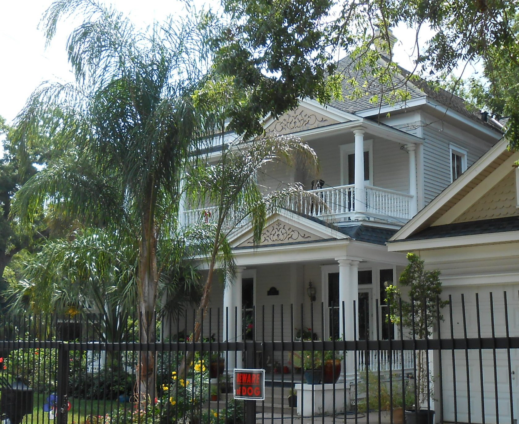 William Wheeler House, 303 N. William Street, Victoria, Texas